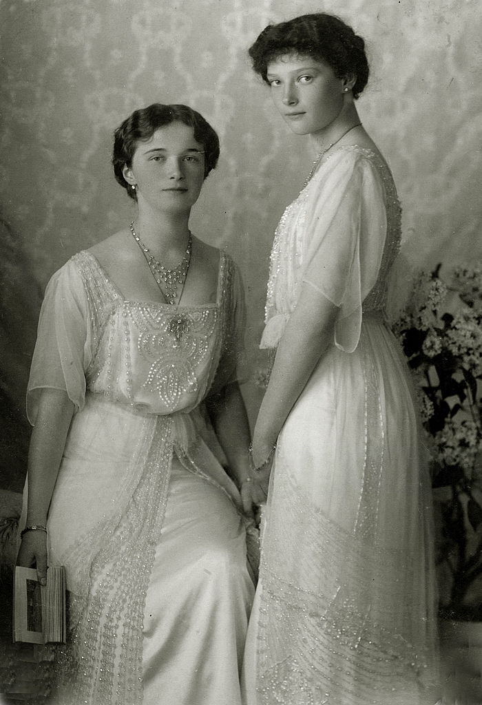 Grand Duchess Olga Nikolaevna of Russia and Grand Duchess Tatiana Nikolaevna of Russia in 1913. Original resolution is 1,956 x 2,860 pixels, withheld by Popperfoto on Getty Images.